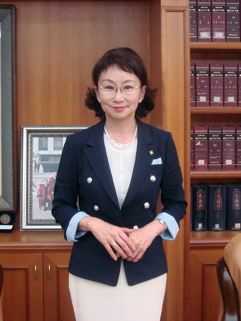 At the Constitutional Court of Korea